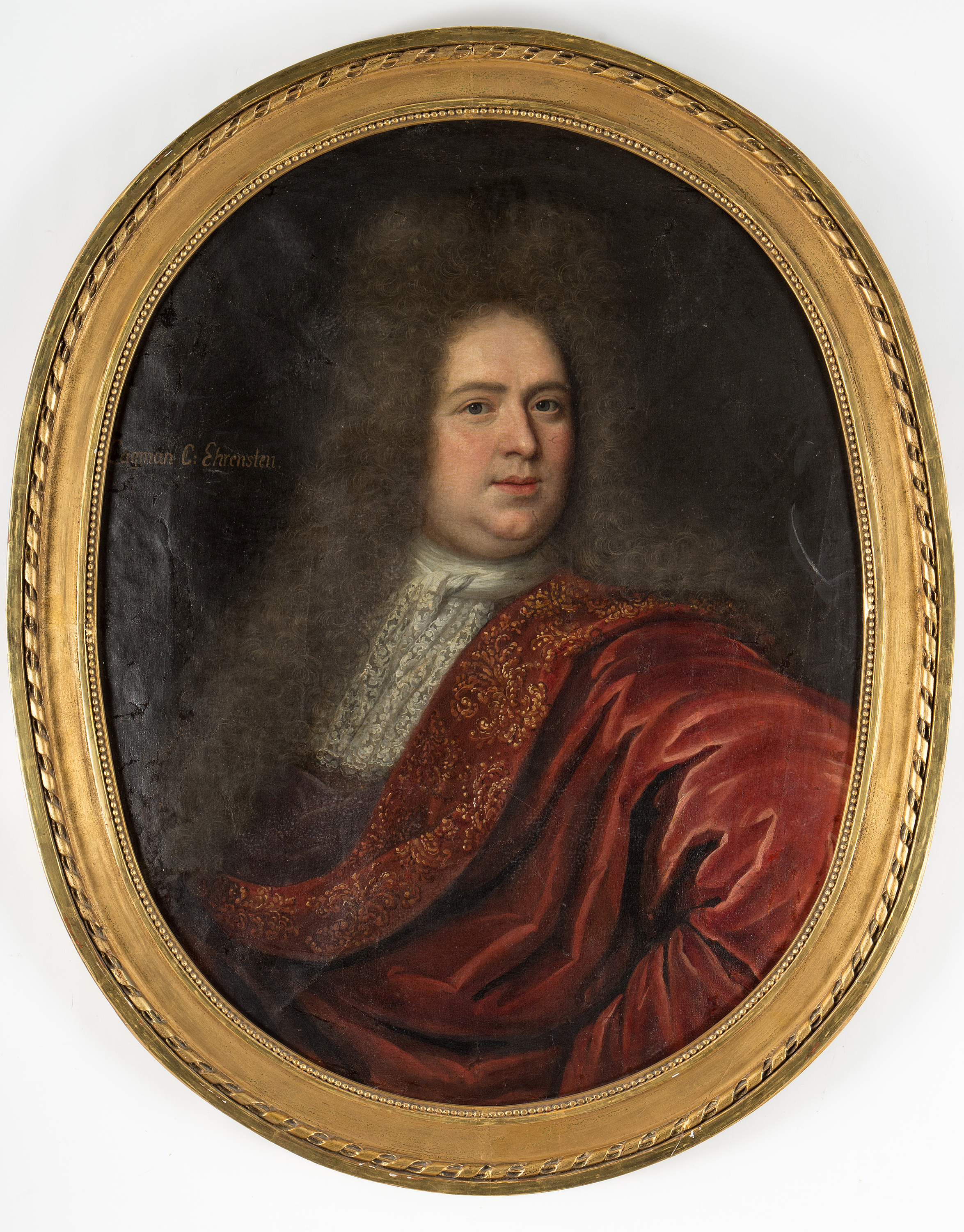 Portrait of Carl Ehrensten by Martin Mijtens the Elder.